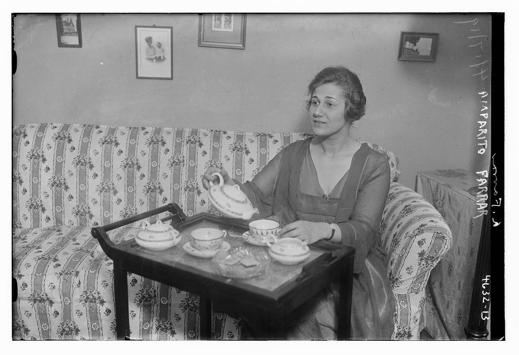 Amparito Farrar in 1918 - died in 1989